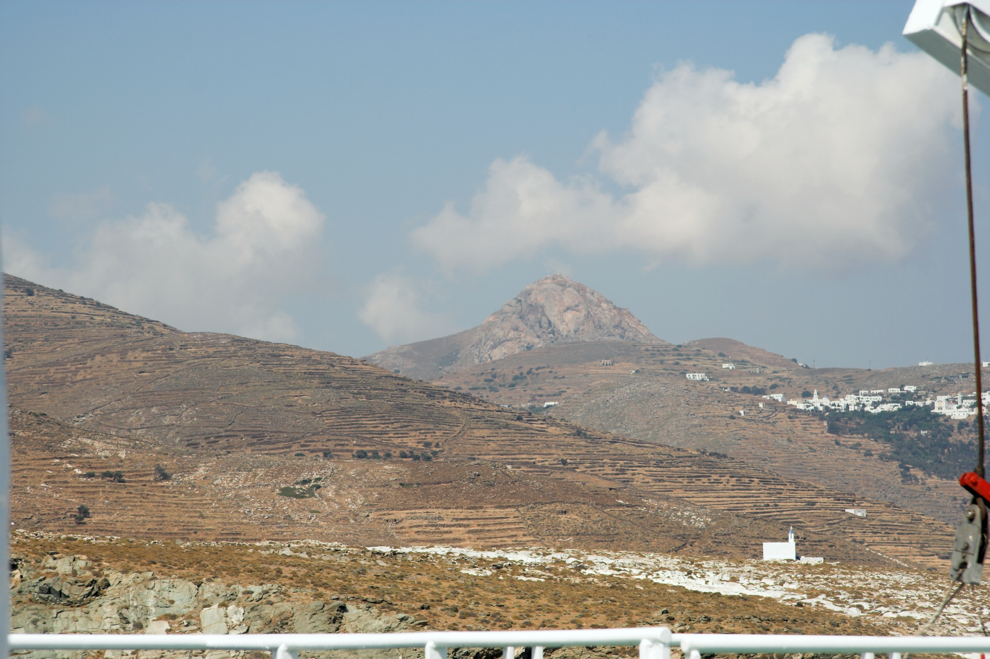 Xobourgo on Tinos from ferry boat.